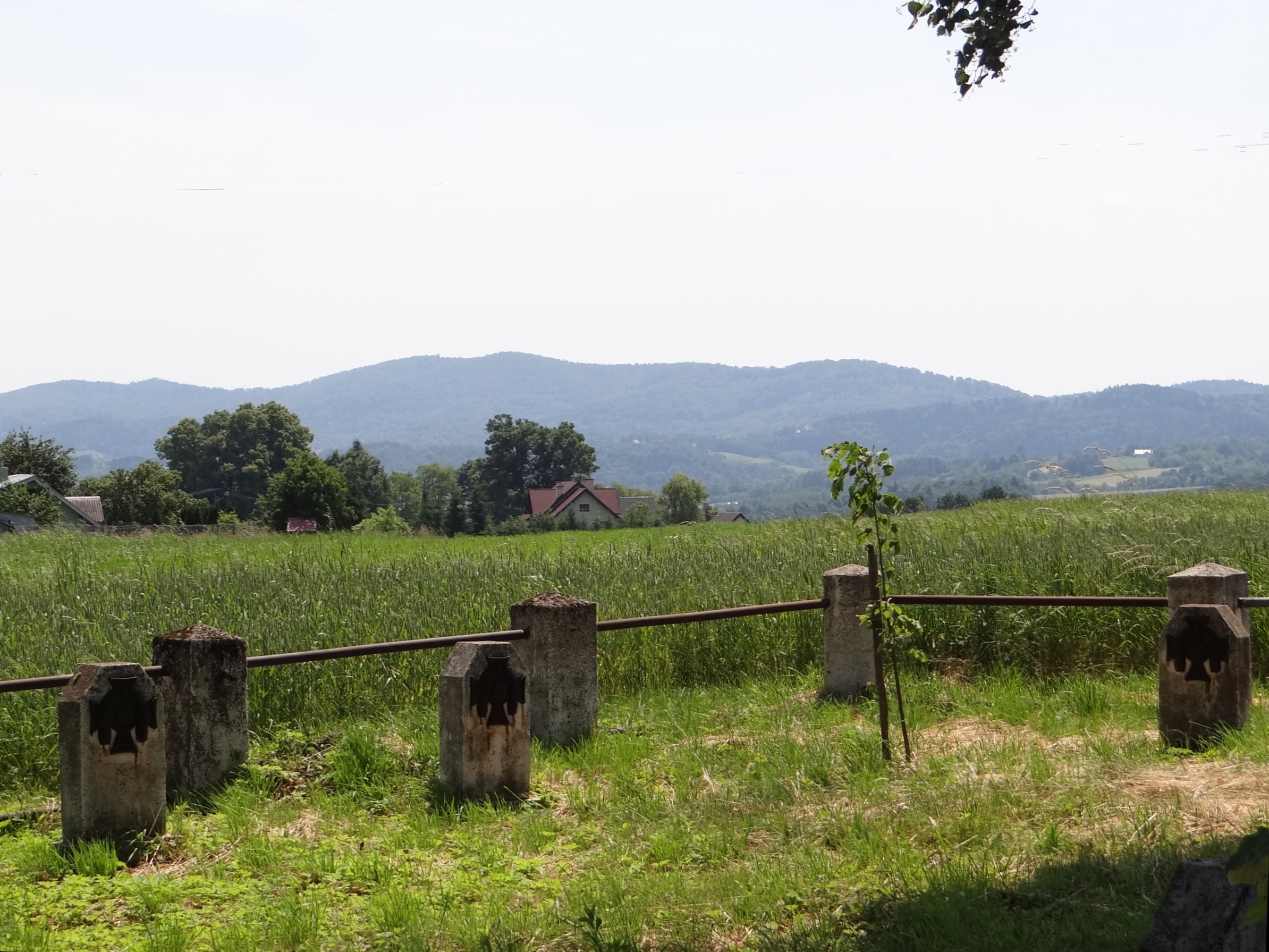 World War I Cemetery nr 165 in Bistuszow